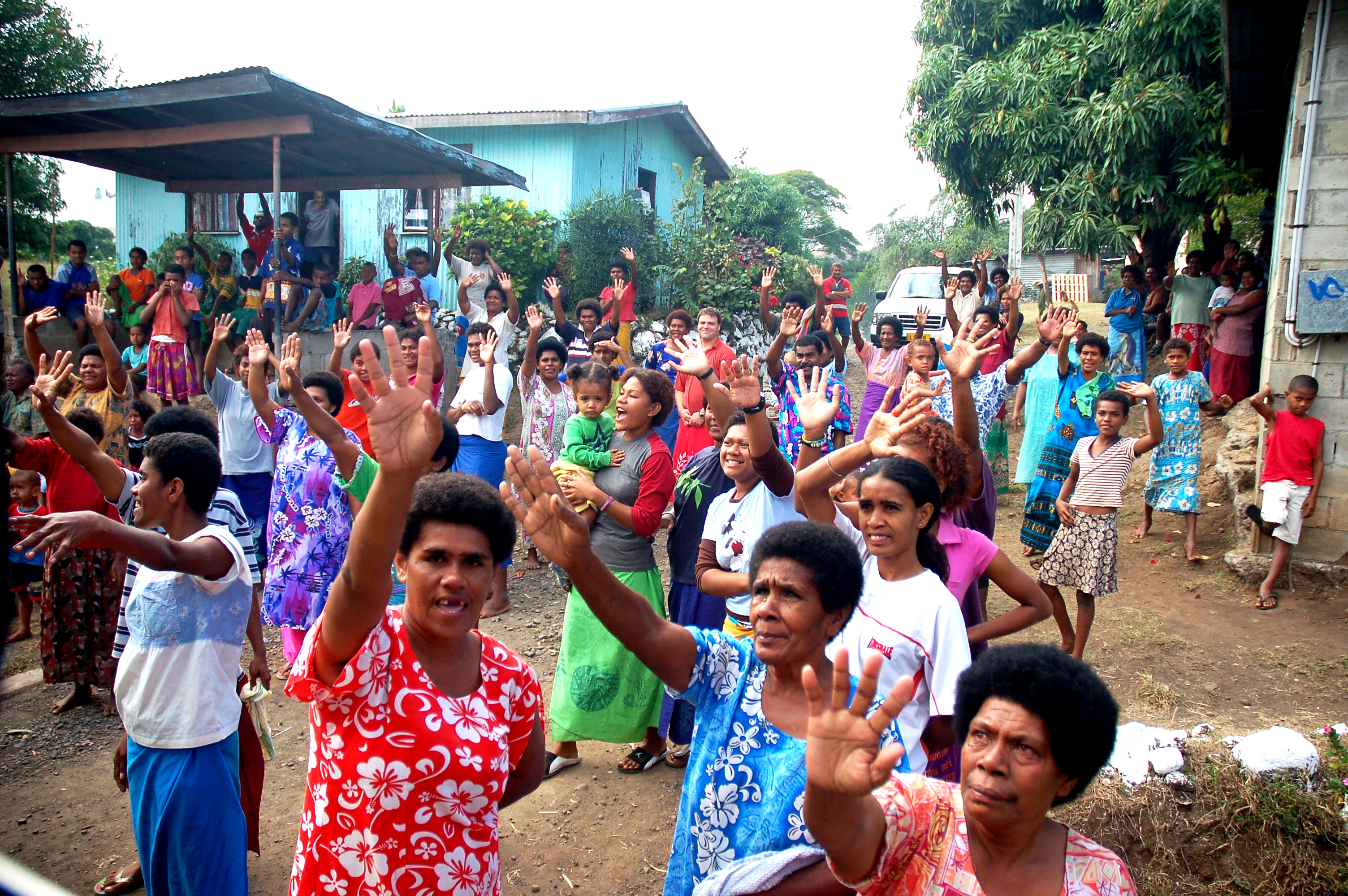 This photo was taken on July 18, 2006 in Western, FJ, using a Nikon D50.